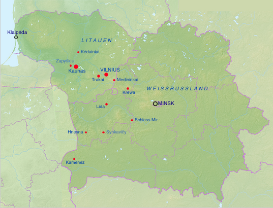 Distribution of Brick Gothic buildings in Finland